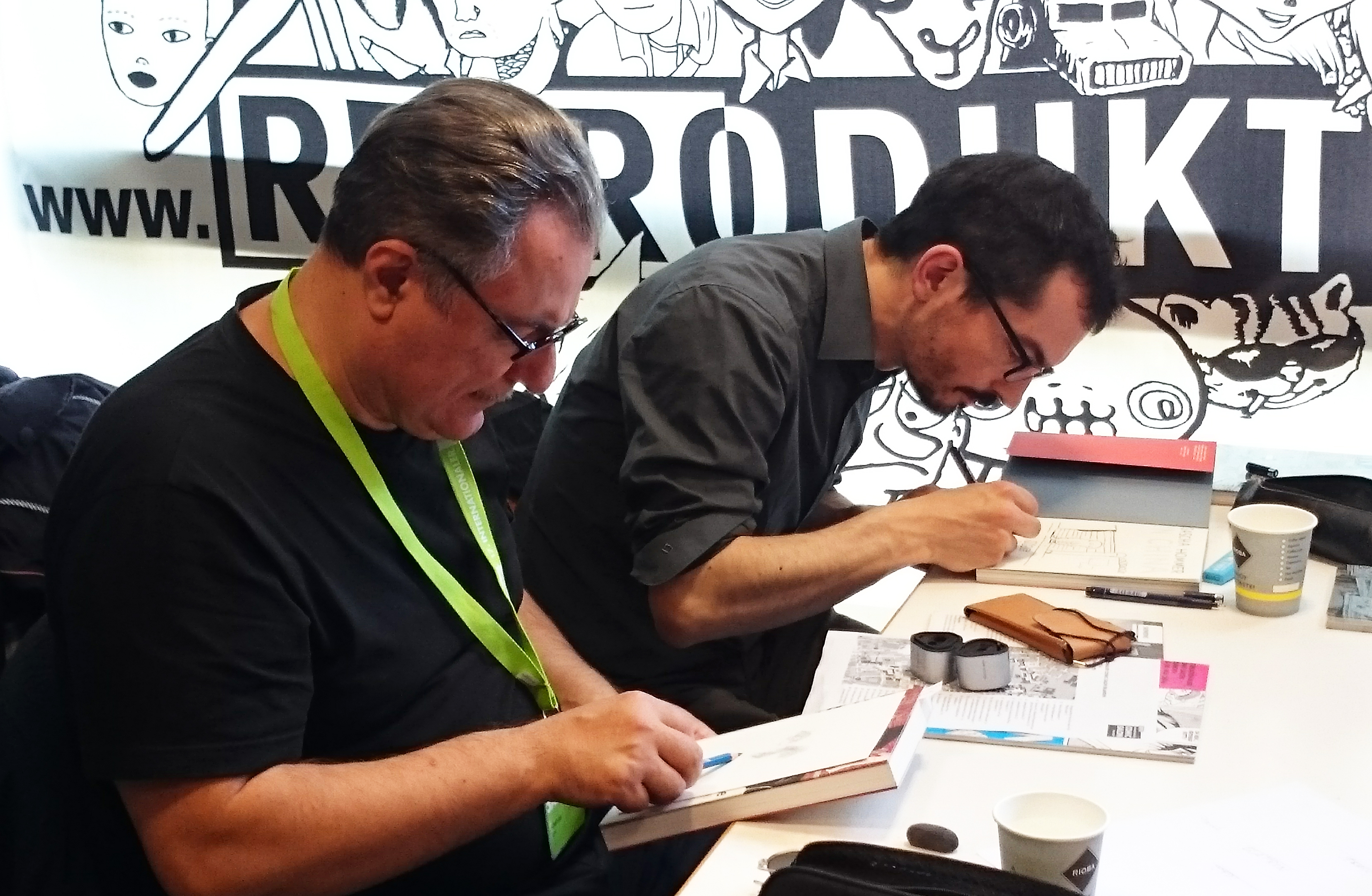 Comic artist Igort (left) and Sascha Hommer at a signing session at the Comic-Salon Erlangen, Germany 2016